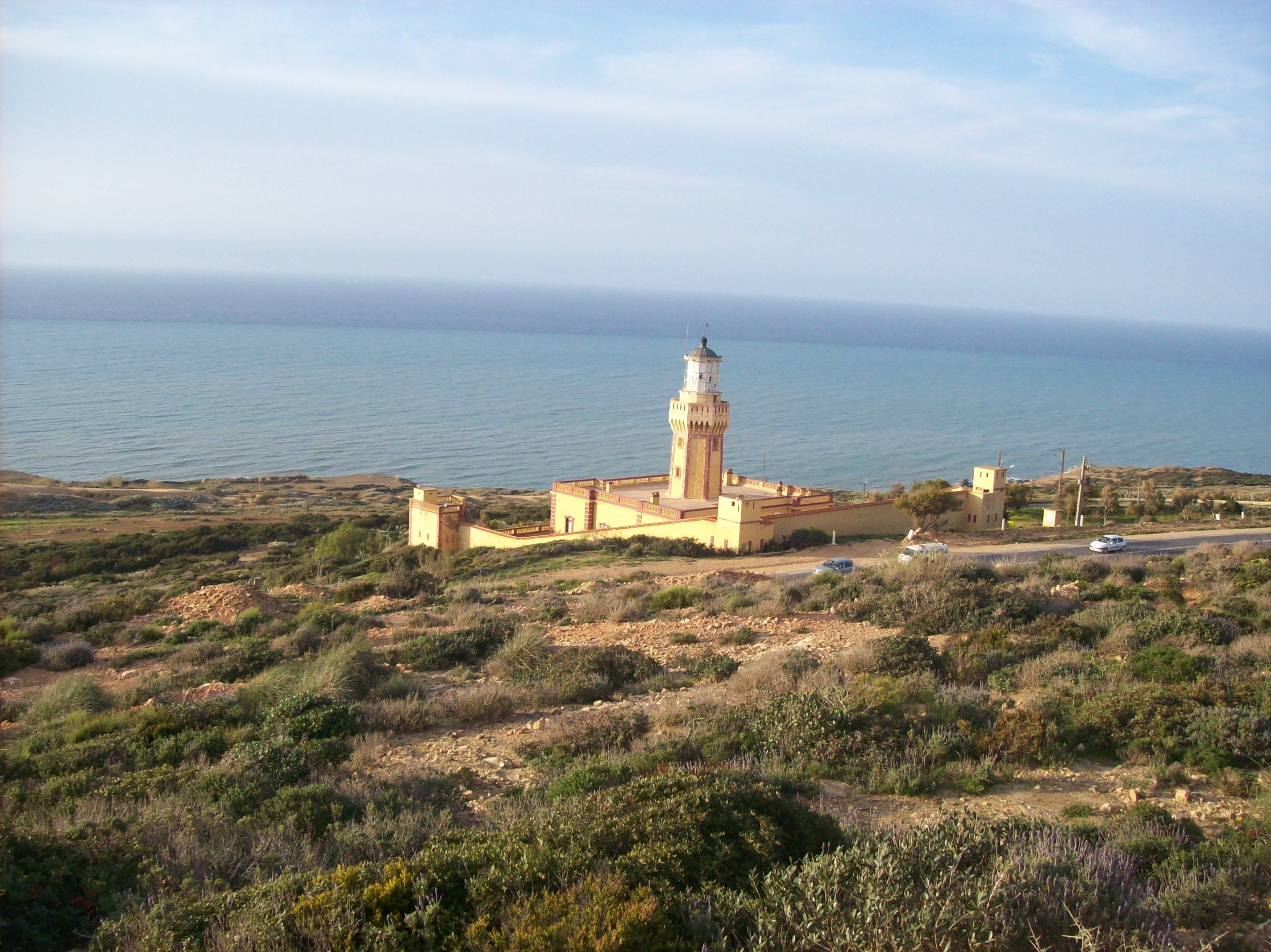 Lighthouse Ouch-Wilaya Mostaganem Phare de Ouillis- Wilaya de Mostaganem منارة ولاية مستغانم، أوتش